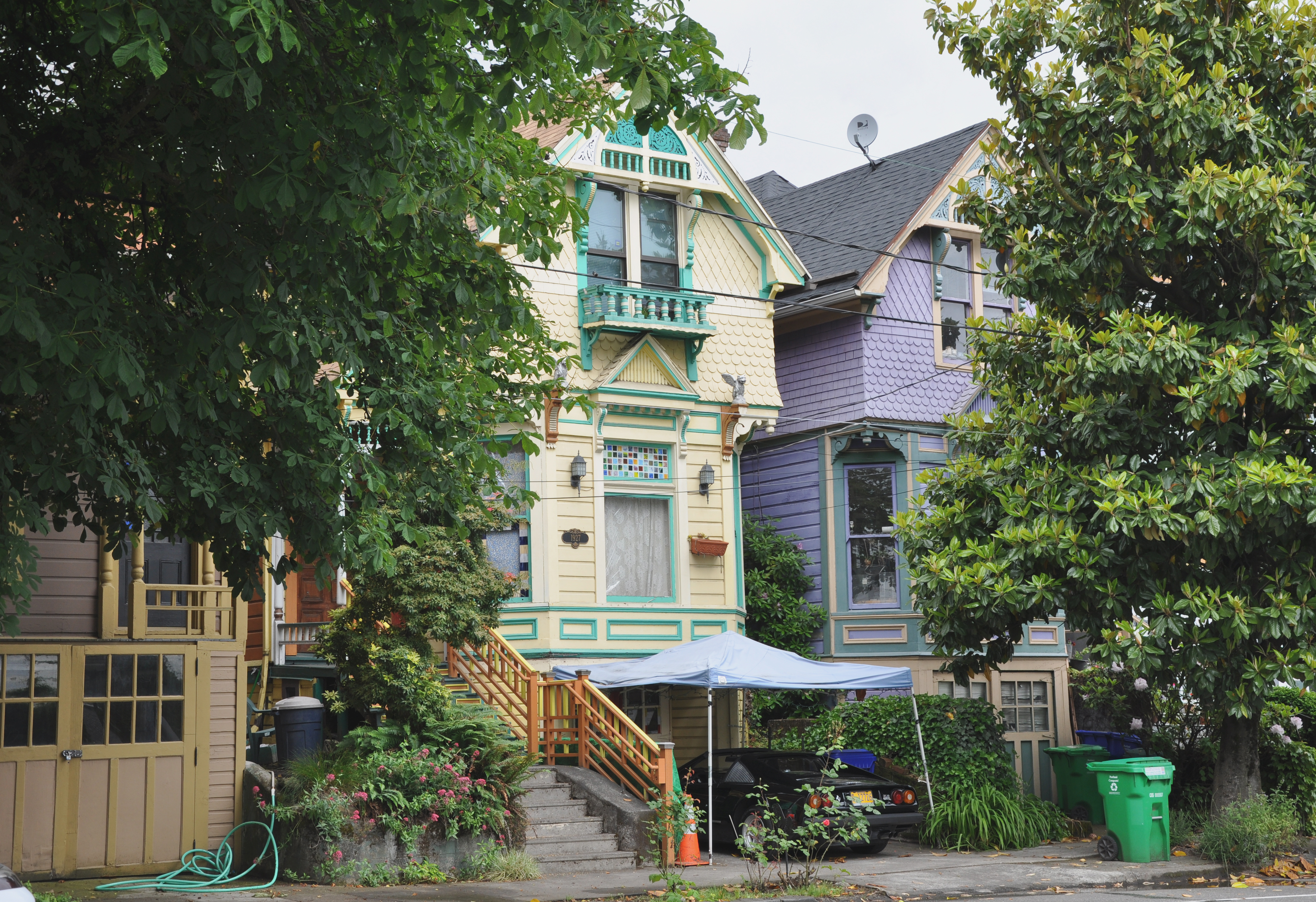 George P. Lent Investment Properties in Portland in the U.S. state of Oregon. The structure is on the National Register of Historic Places.